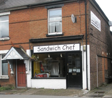 Sandwich Chef in Guildford Park Road